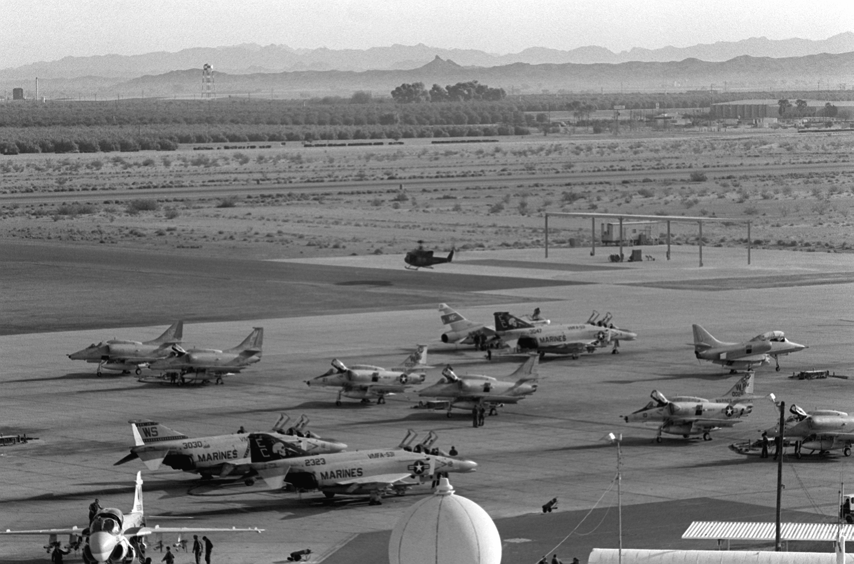 A view of the various aircraft being used in a weapons and tactics instruction course at the U.S. Marine Corps Air Station Yuma, Arizona (USA), in 1982. Visible are three McDonnell Douglas F-4N Phantom II (from VMFA-323 and VMFA-531), four Douglas A-4E/F Skyhawk (VMA-133 and VMA-322, USMC Reserve), two A-4M (VMA-223), an TA-4F, a Grumman A-6E Intruder, and a U.S. Navy LTV A-7E (VX-5). A Bell UH-1N Twin Huey is landing in the background.